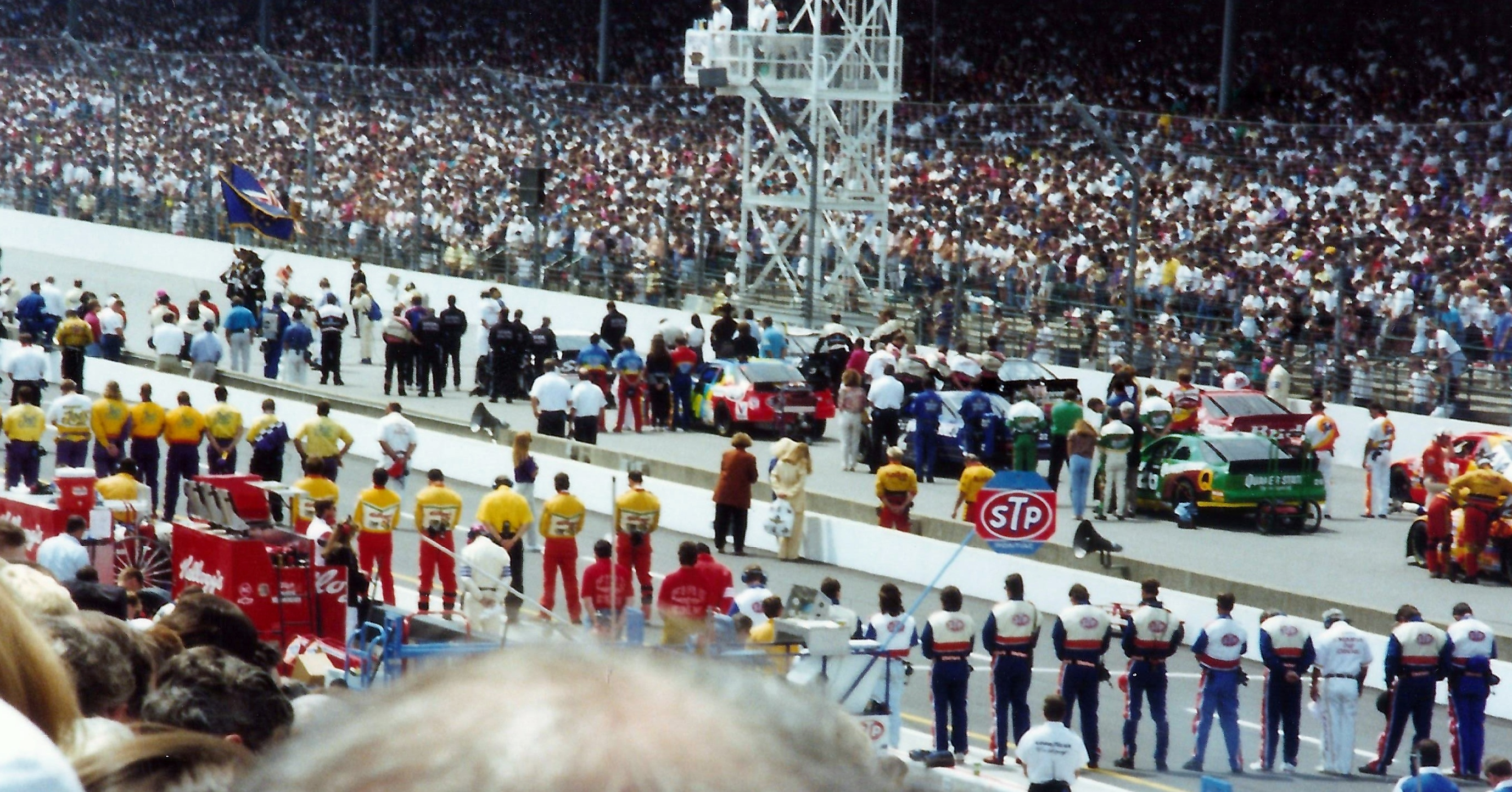 1994 NASCAR Brickyard 400 at the Indianapolis Motor Speedway. Prerace ceremonies.